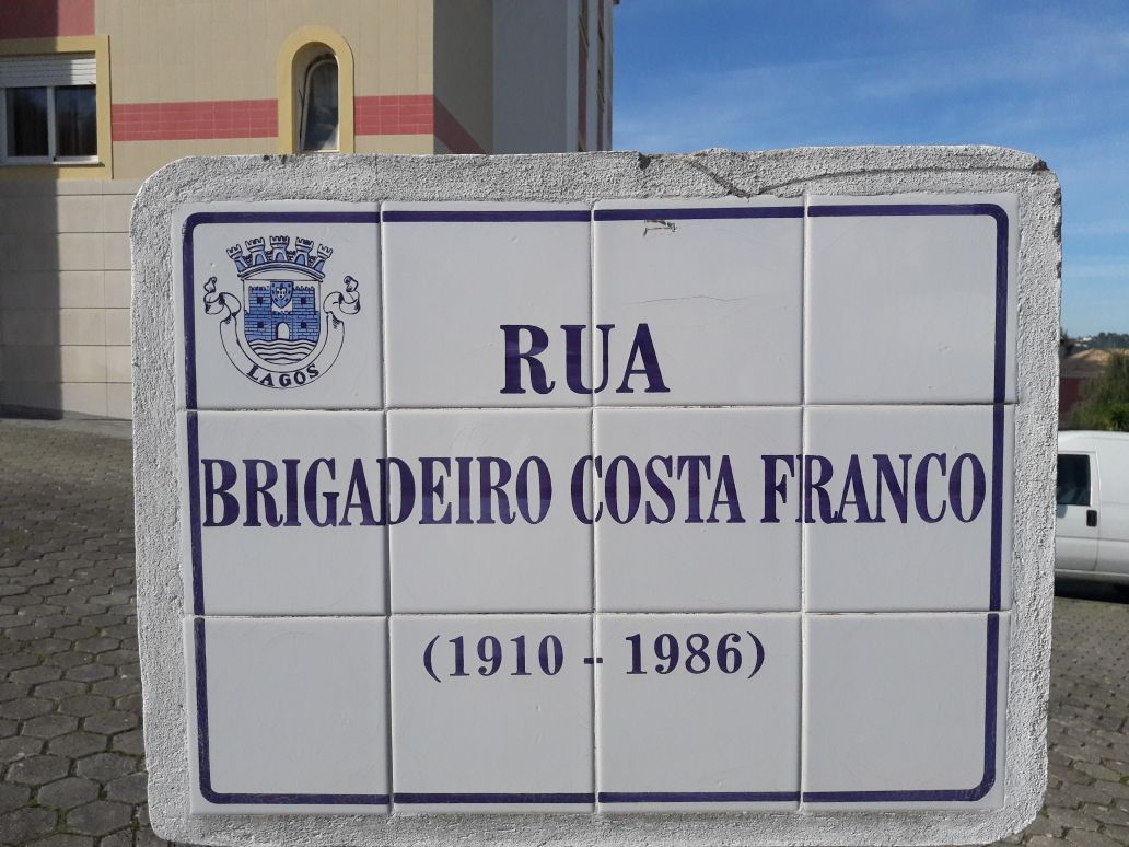 Street sign of Rua Brigadeiro Costa Franco, in the city of Lagos, in southern Portugal.